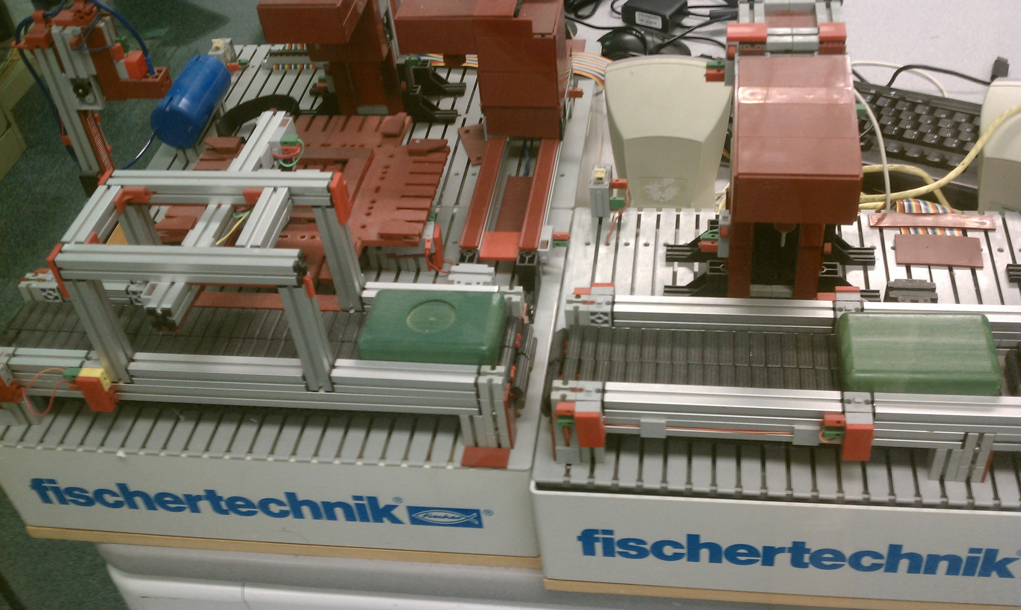 A display of Fischertechnik creations in an engineering lab